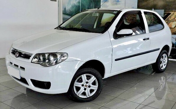 Fiat Palio Economy 1.0 Fire flex 3-door Model 2016